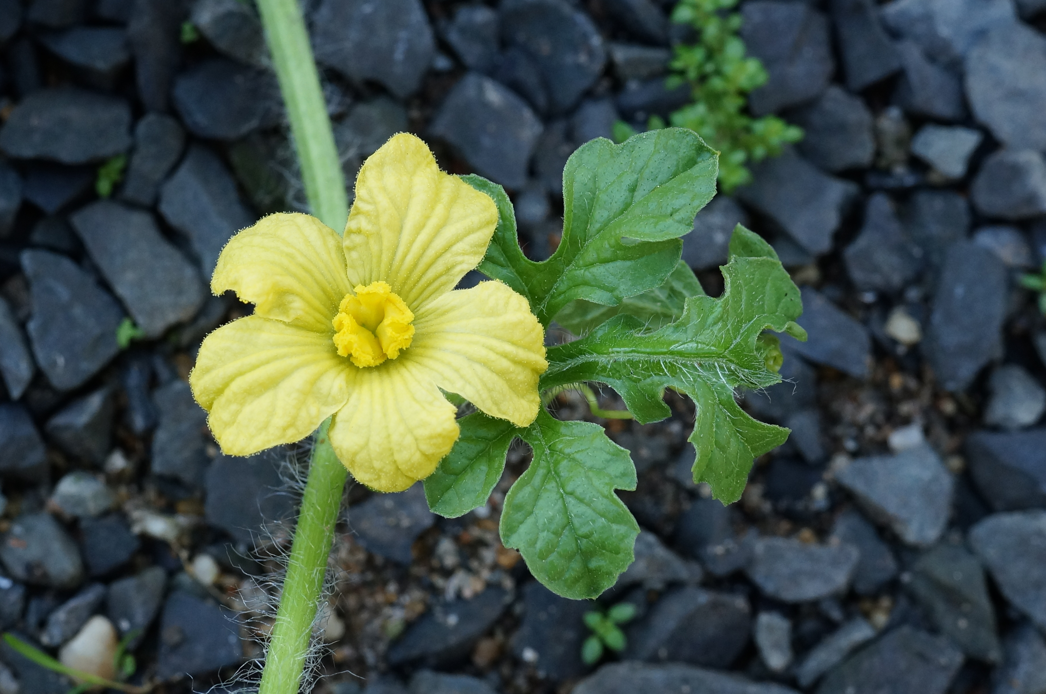 Watermelon flower